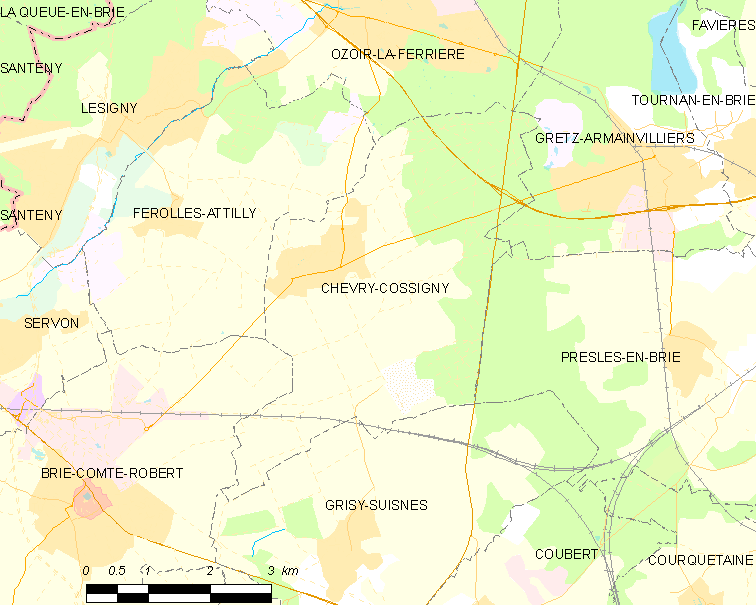 Map of French municipality Chevry-Cossigny